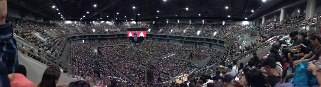 Inside Mall or Asia (MOA) Arena (Pasay City, Philippines) during the Special Meeting of Jehovah's Witnesses